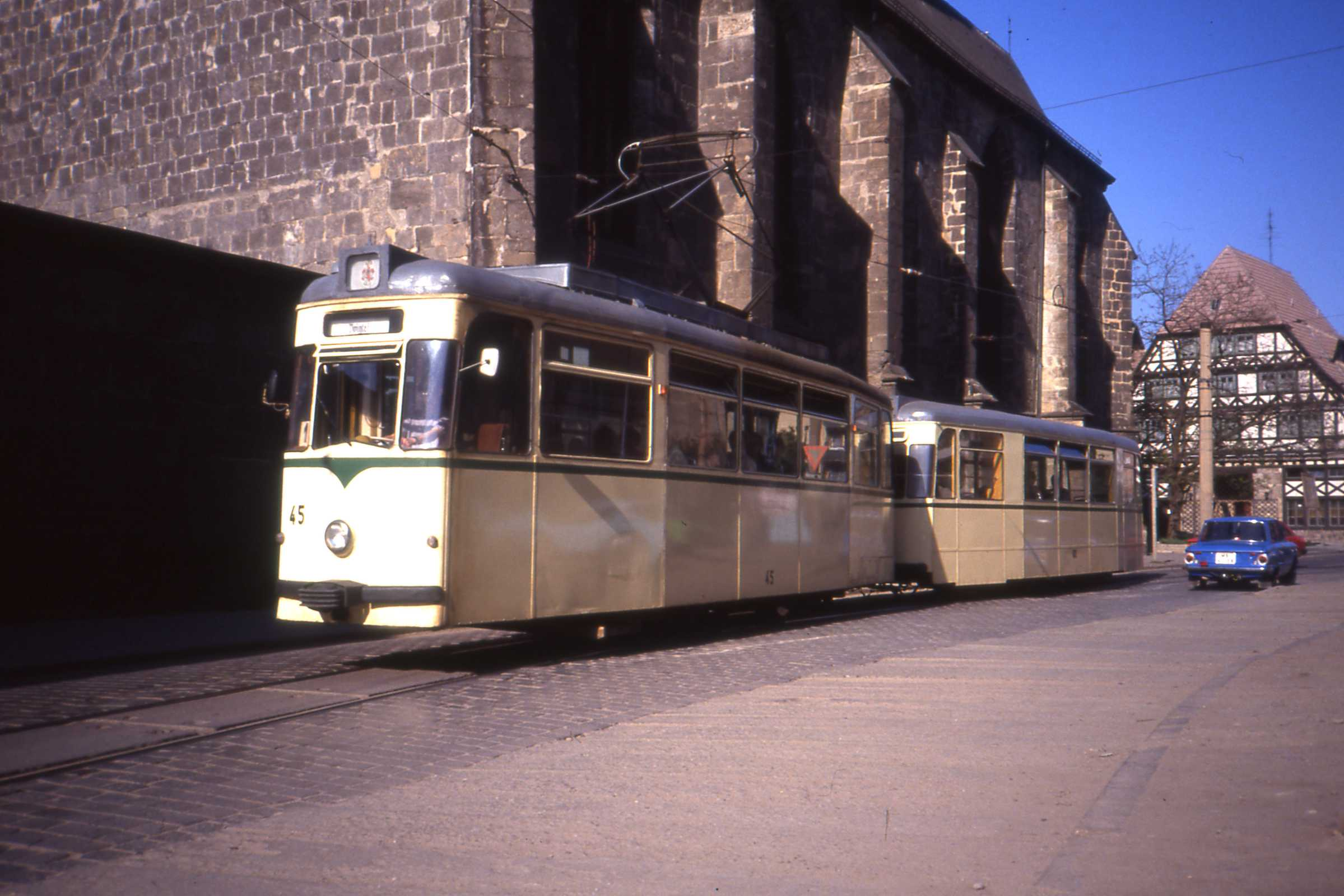 A two-trams set on Linie 1, with typical single track gutter running, is passed by a fine blue Zaporozhets car. The scene here is the tram near Vogtei on route 1. Tram no 45 was a 1968 Tatra T2D (a czech made Gotha) which was scrapped in 1994. Formerly it was Halle 788 before arriving here in 1985. By the end of 1992, arrival of second hand trams from Stuttgart spelled out the end for these Gotha motor cars. Also visible in the picture is a blue ZAZ-968 Zaporozhets.